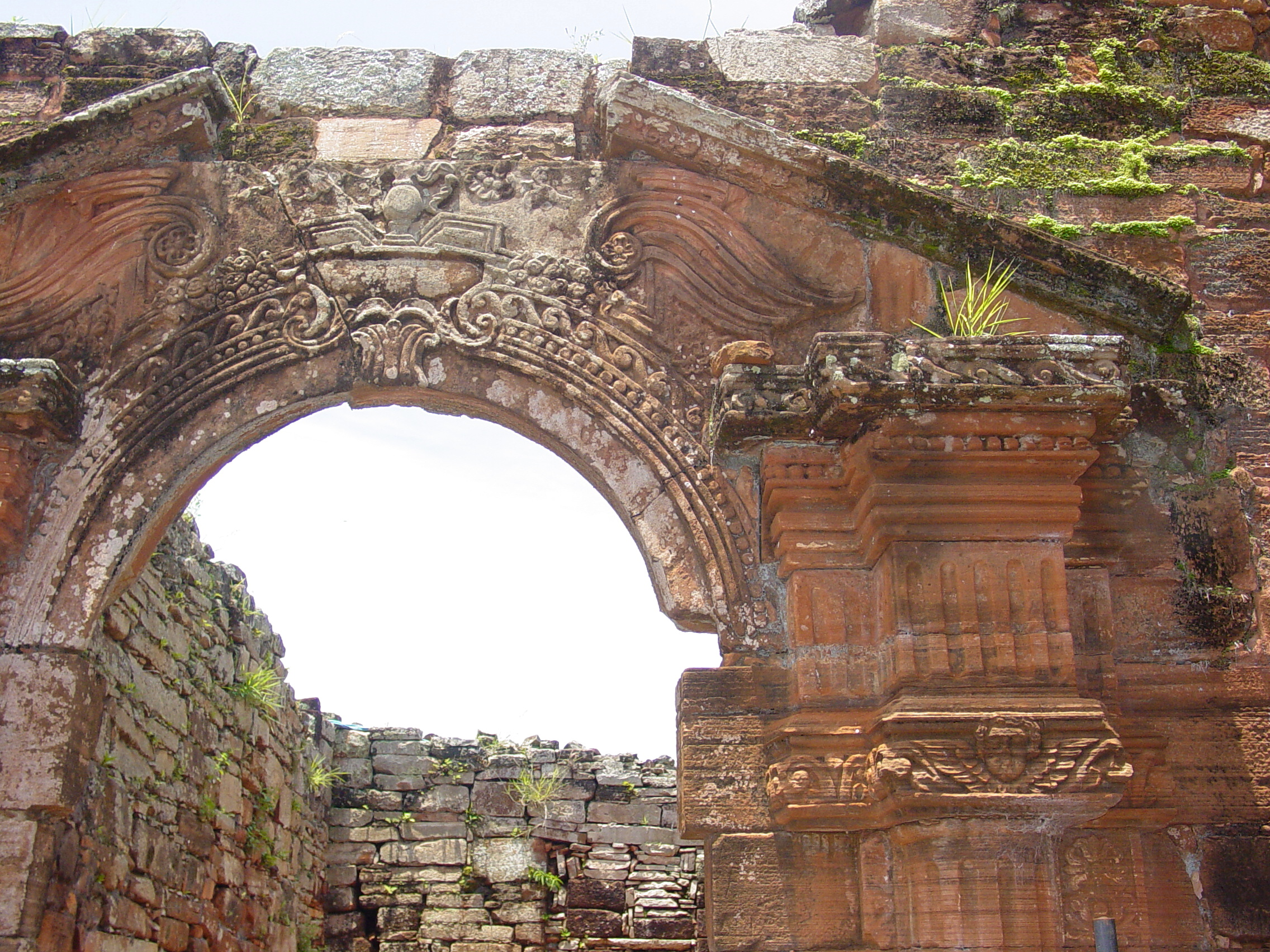 San Ignacio Jesuit Mission, detail of main cathedral ruins. January 2004.